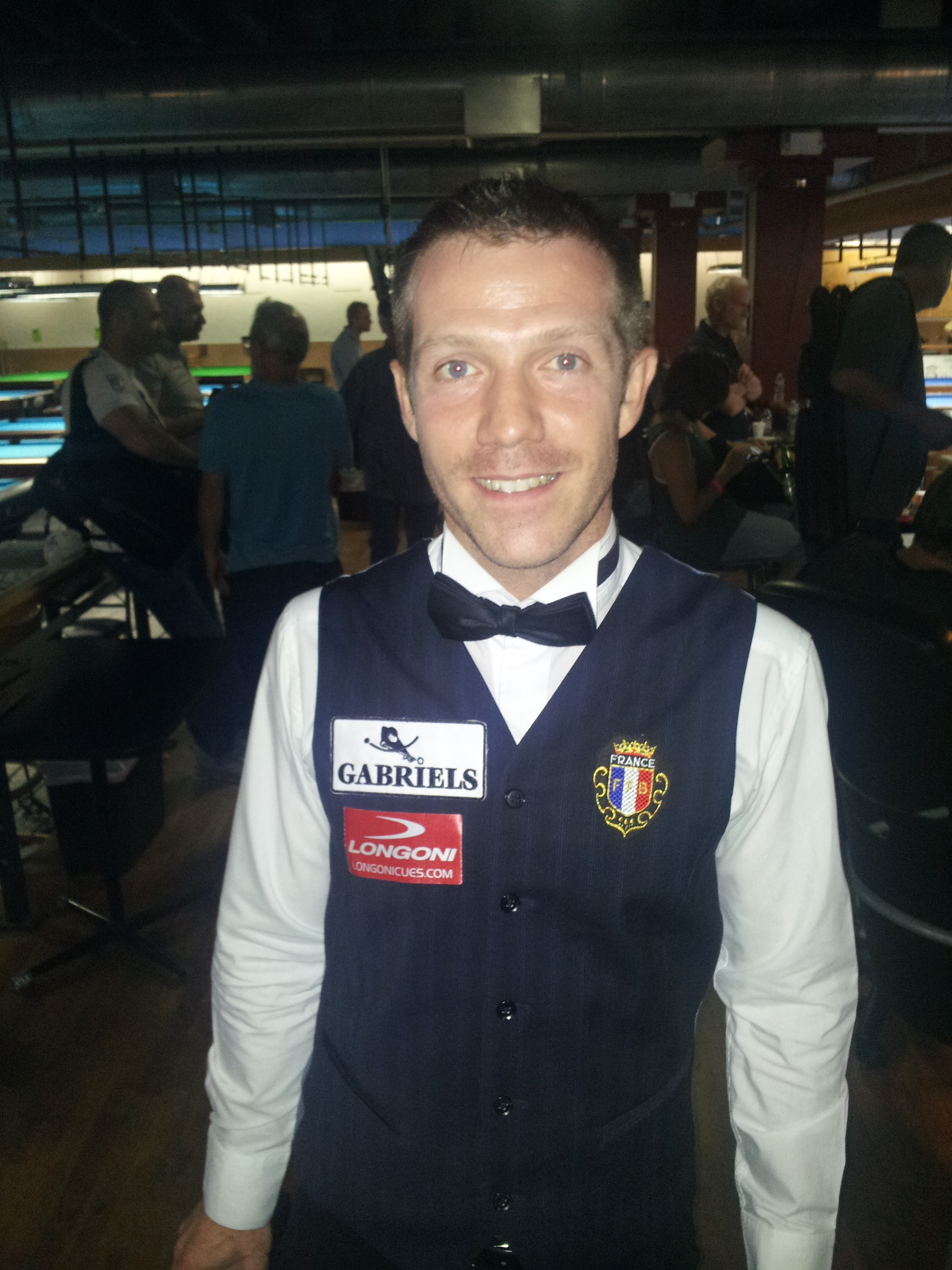 Verhoeven Open 2016. 3-Cushion Tournament at the Carom Café in New York City.